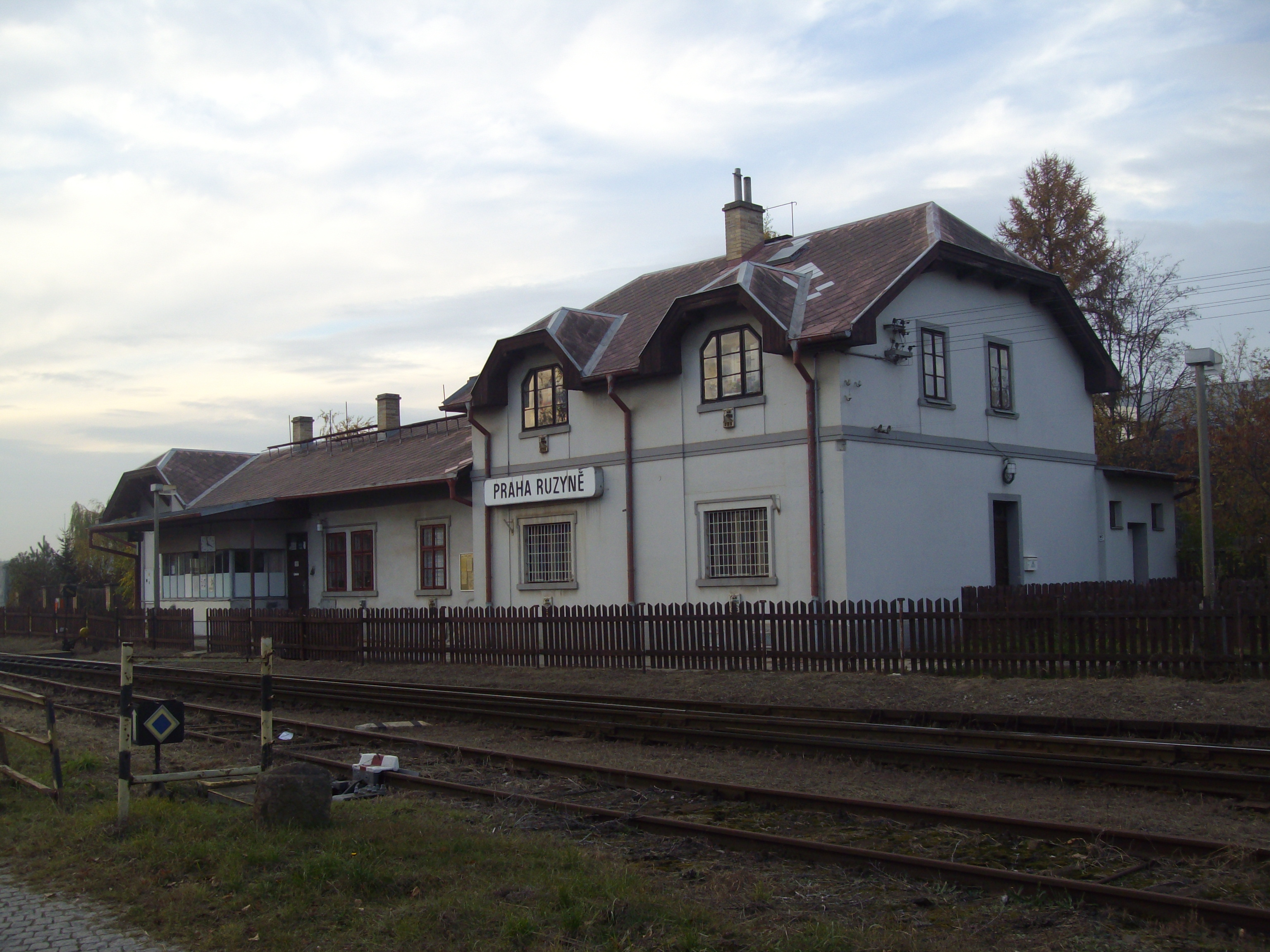 Railway station Praha-Ruzyne